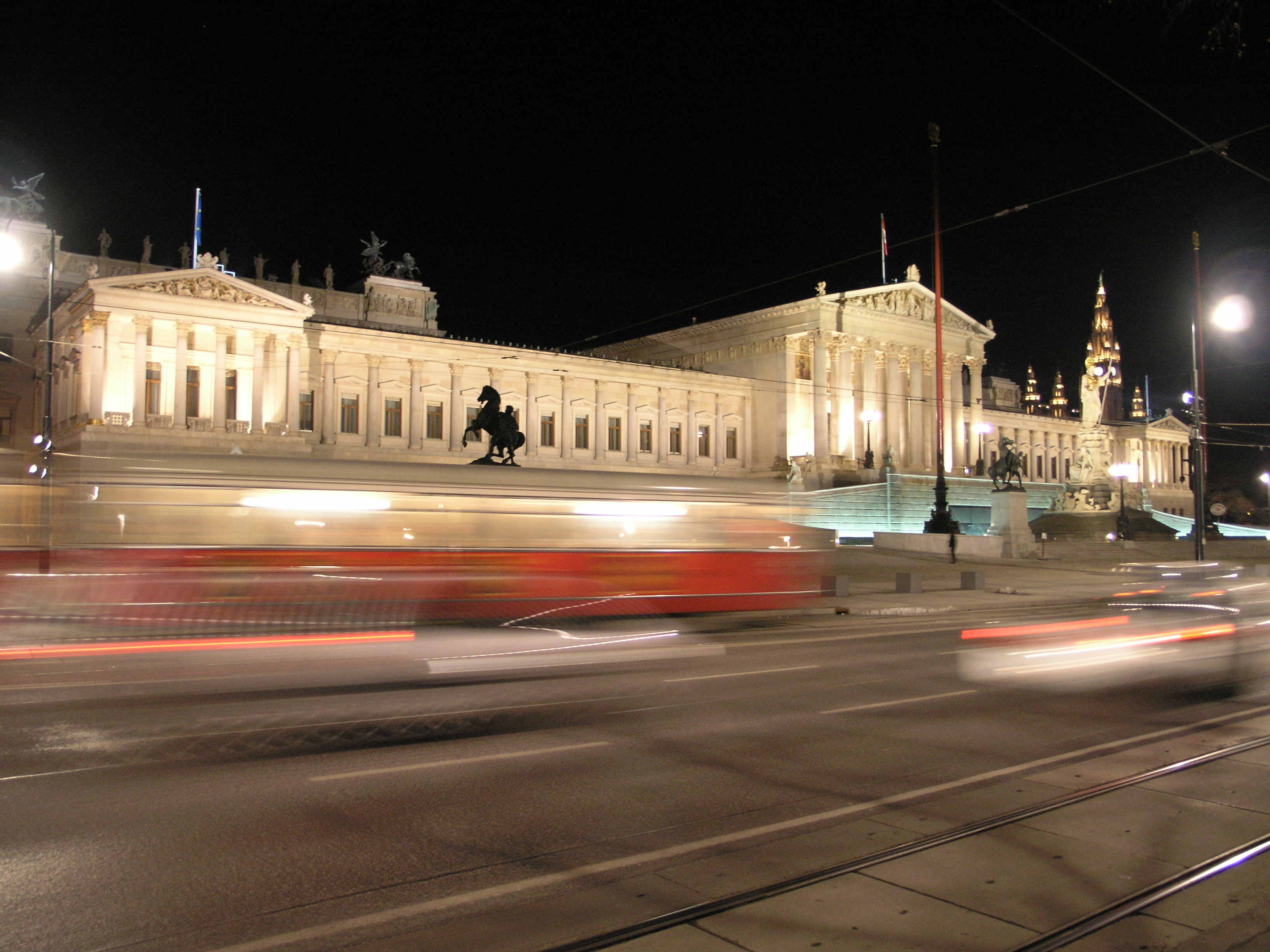 Austria, Vienna, Austrian Parliament Building